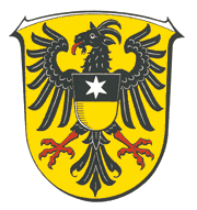 Coat of Arms of Neukirchen